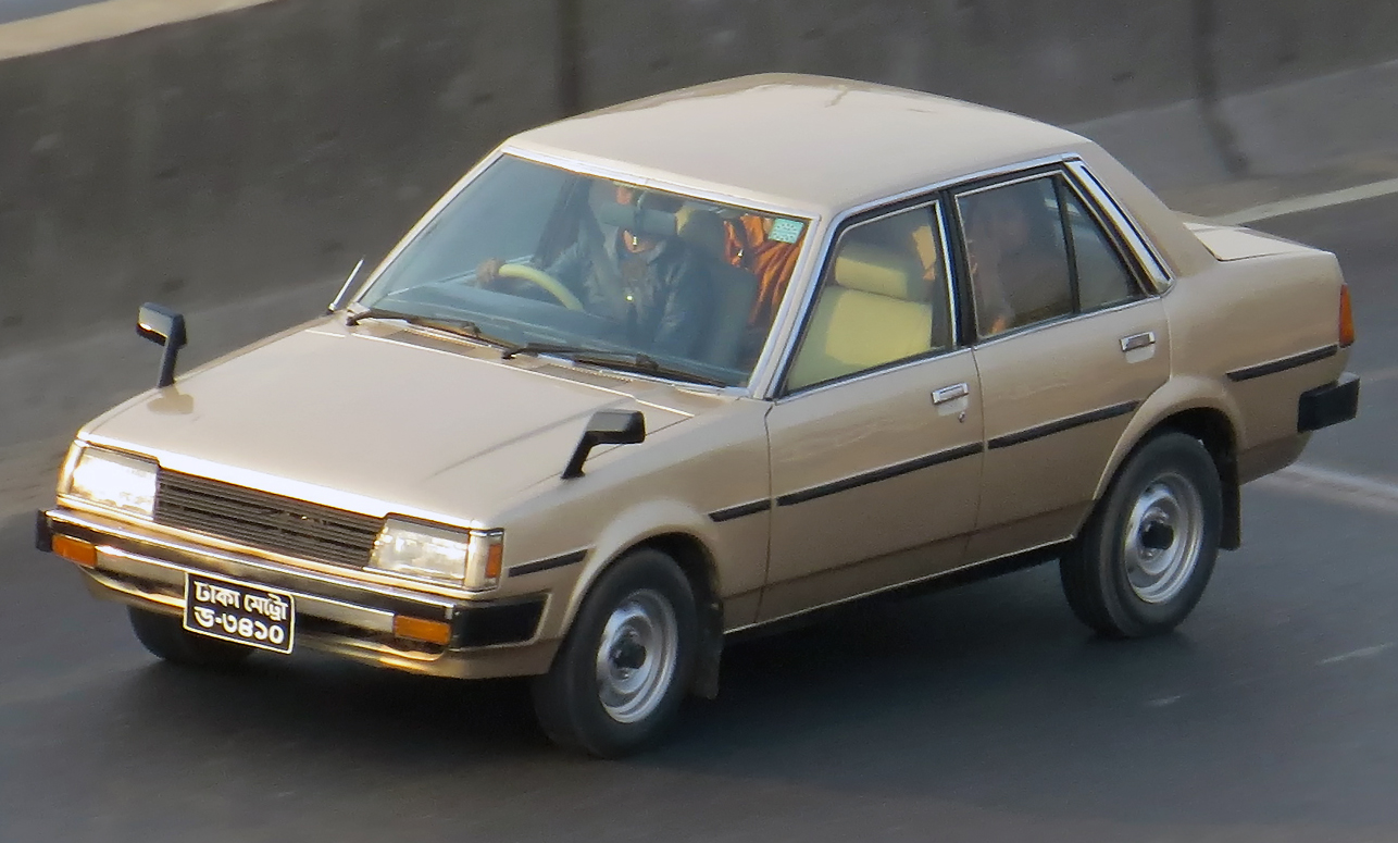 Spotted on the Airport Rd, Dhaka-2017.